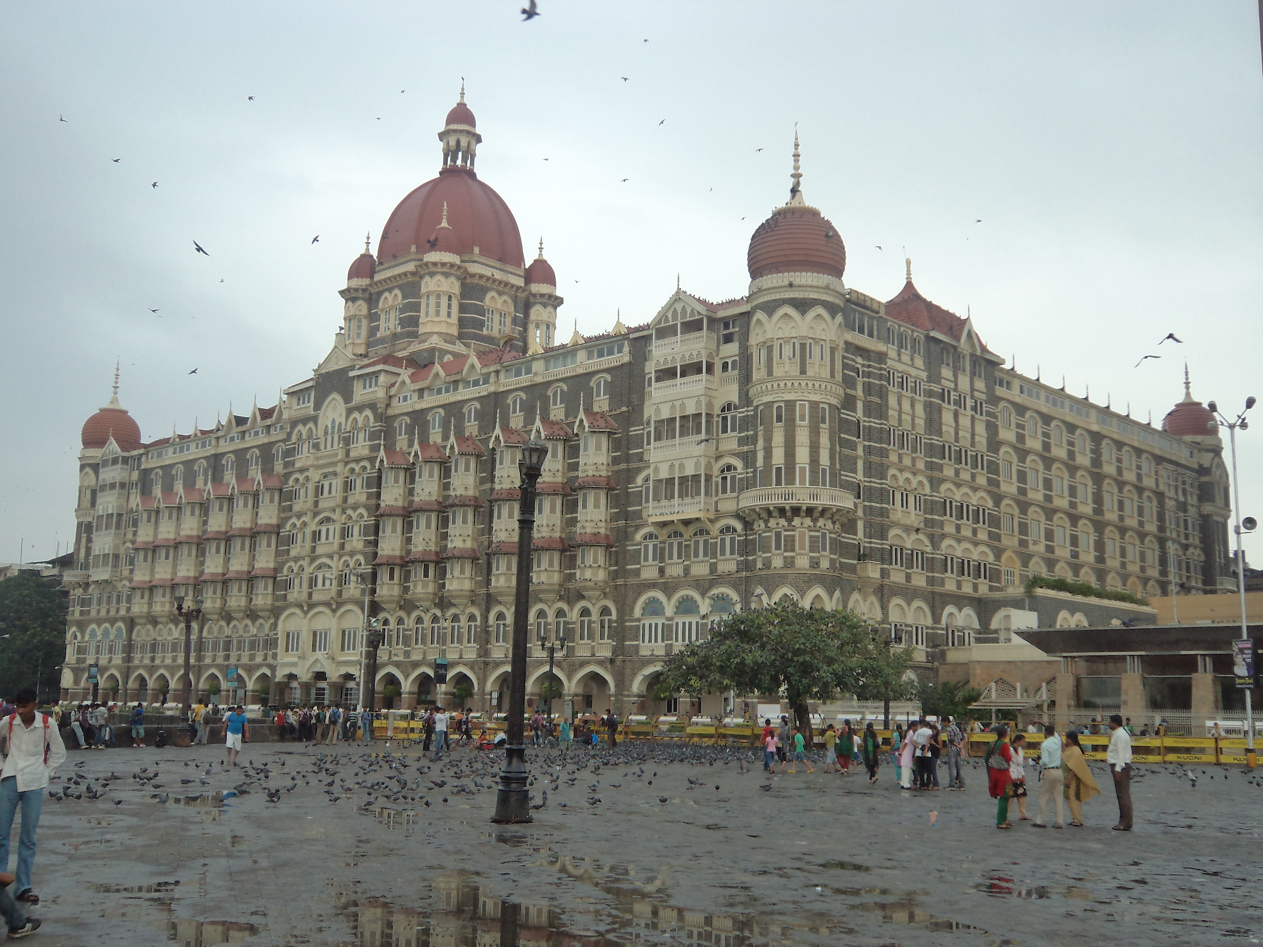 Taj hotel mumbai